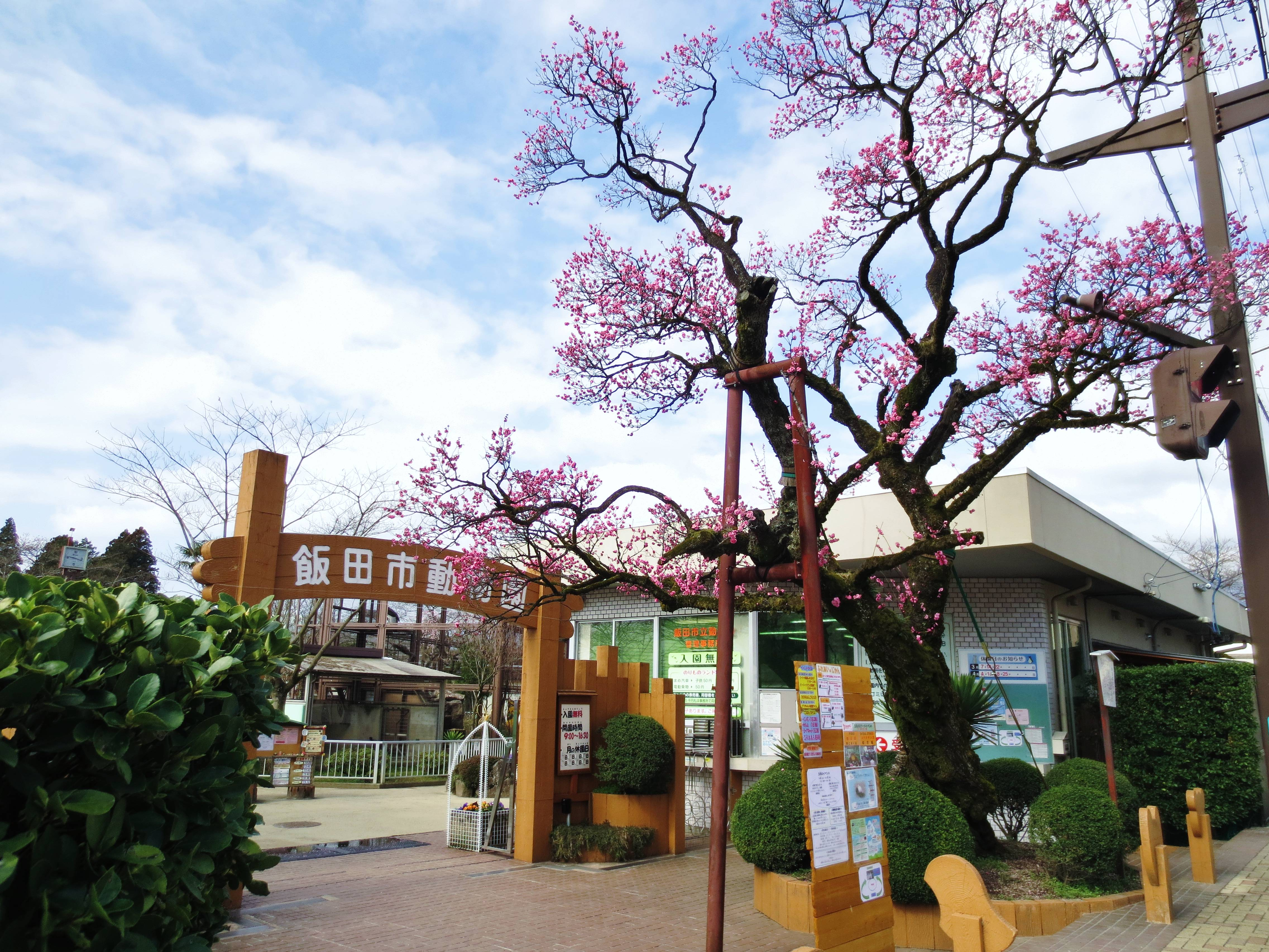 Iida City Zoo.